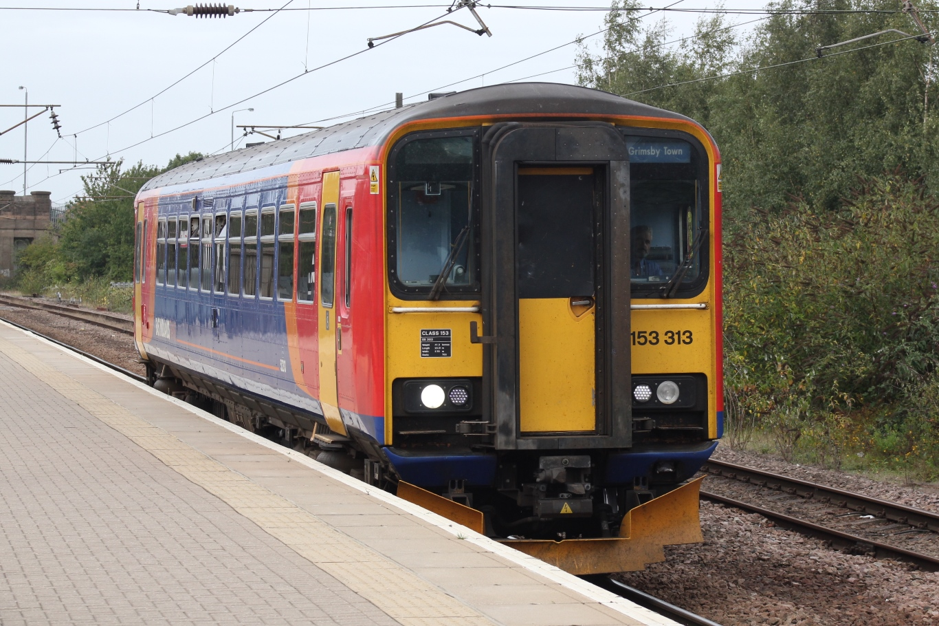 The train from Grimsby arrives at Newark North Gate, its final destination. The single car is East Midland Train's 153313.